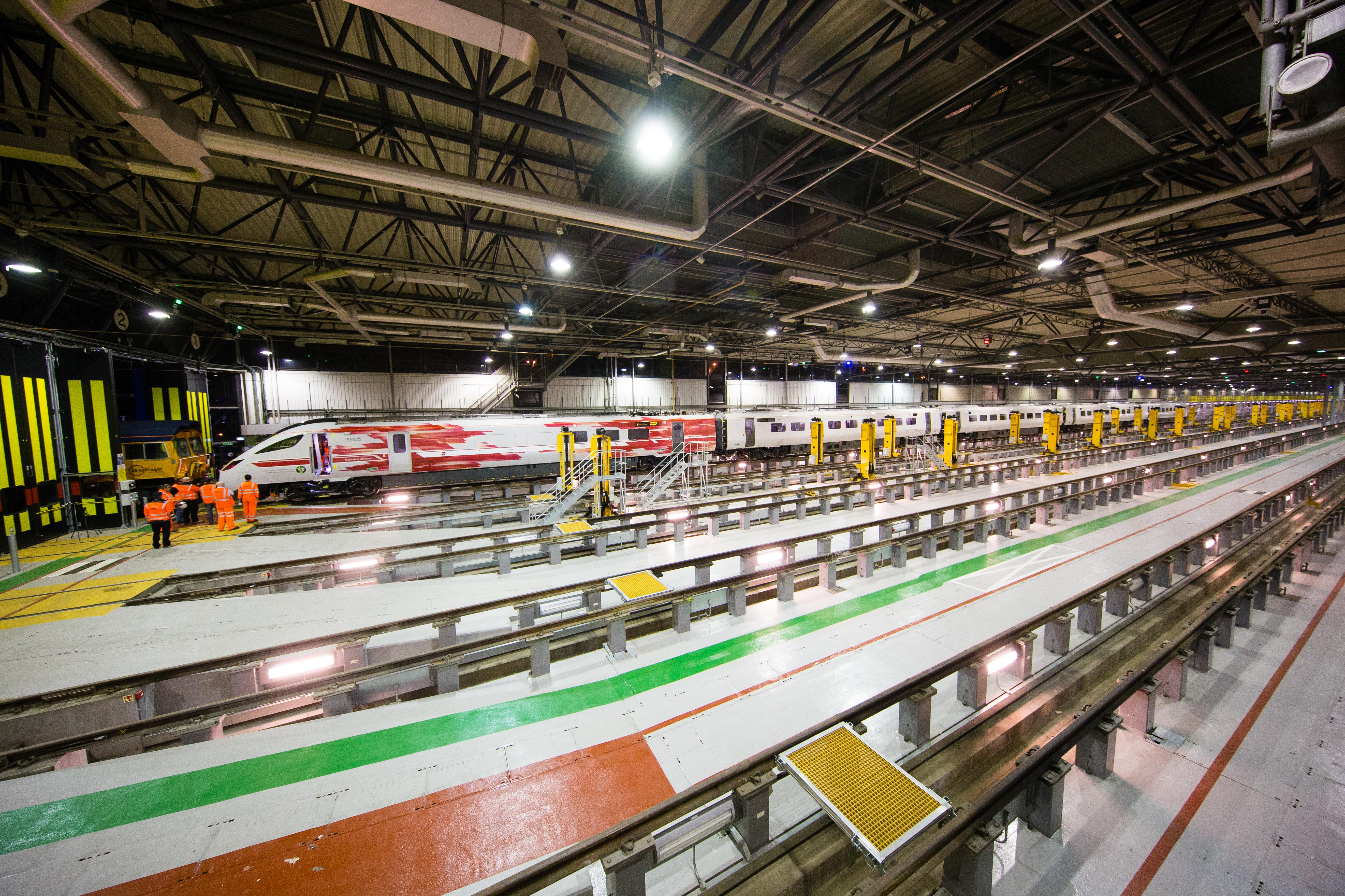 The arrival of the third pre-series train (T2) at North Pole Train Maintenance Centre, West London, as part of the IEP testing programme.